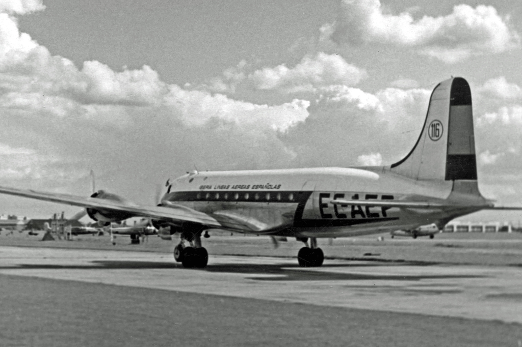 Douglas DC-4 Skymaster of Iberia at London Heathrow in 1954